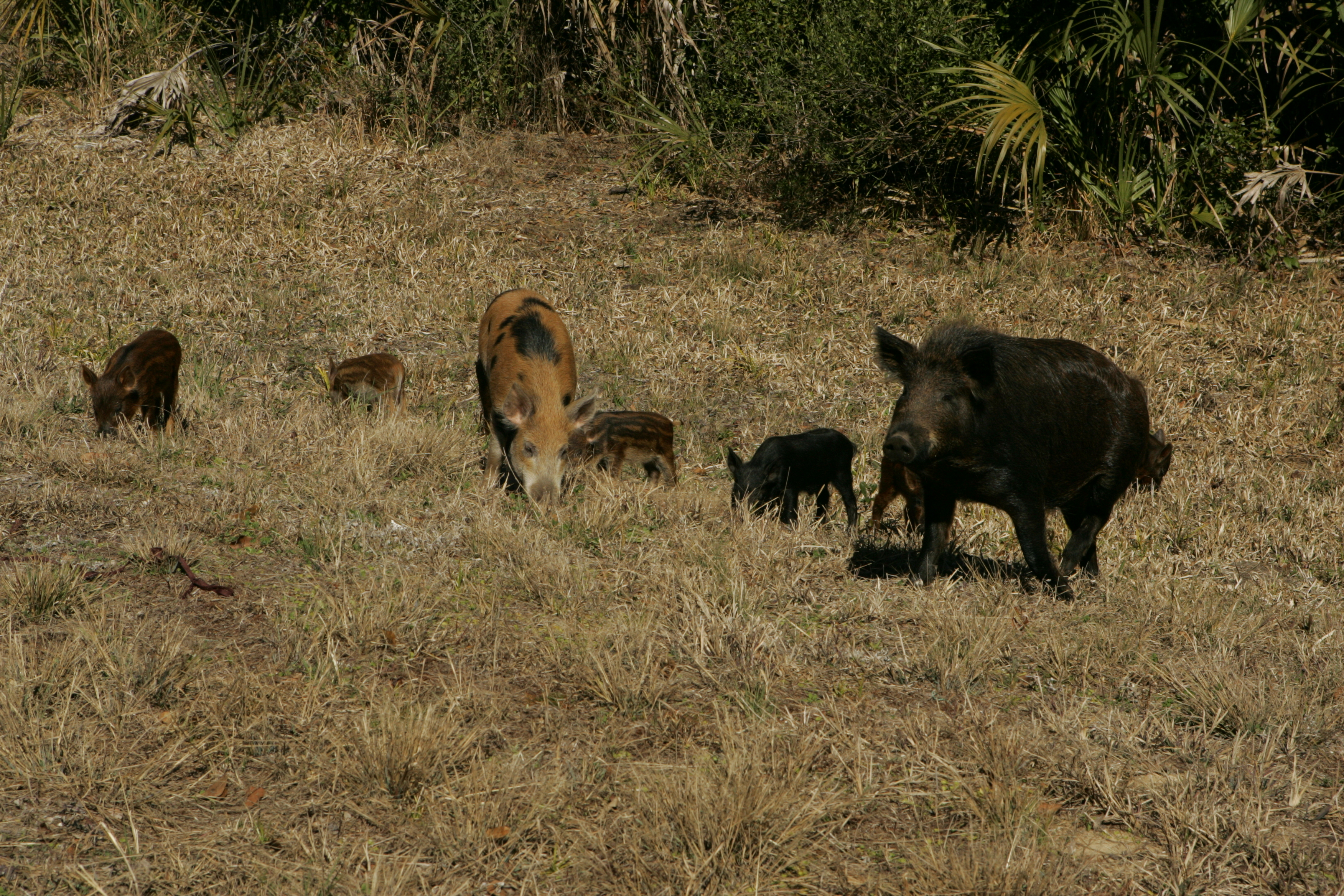 Feral hogs damage native plants at Lower Suwannee National Wildlife Refuge in Florida. (Steve Hillebrand/USFWS)